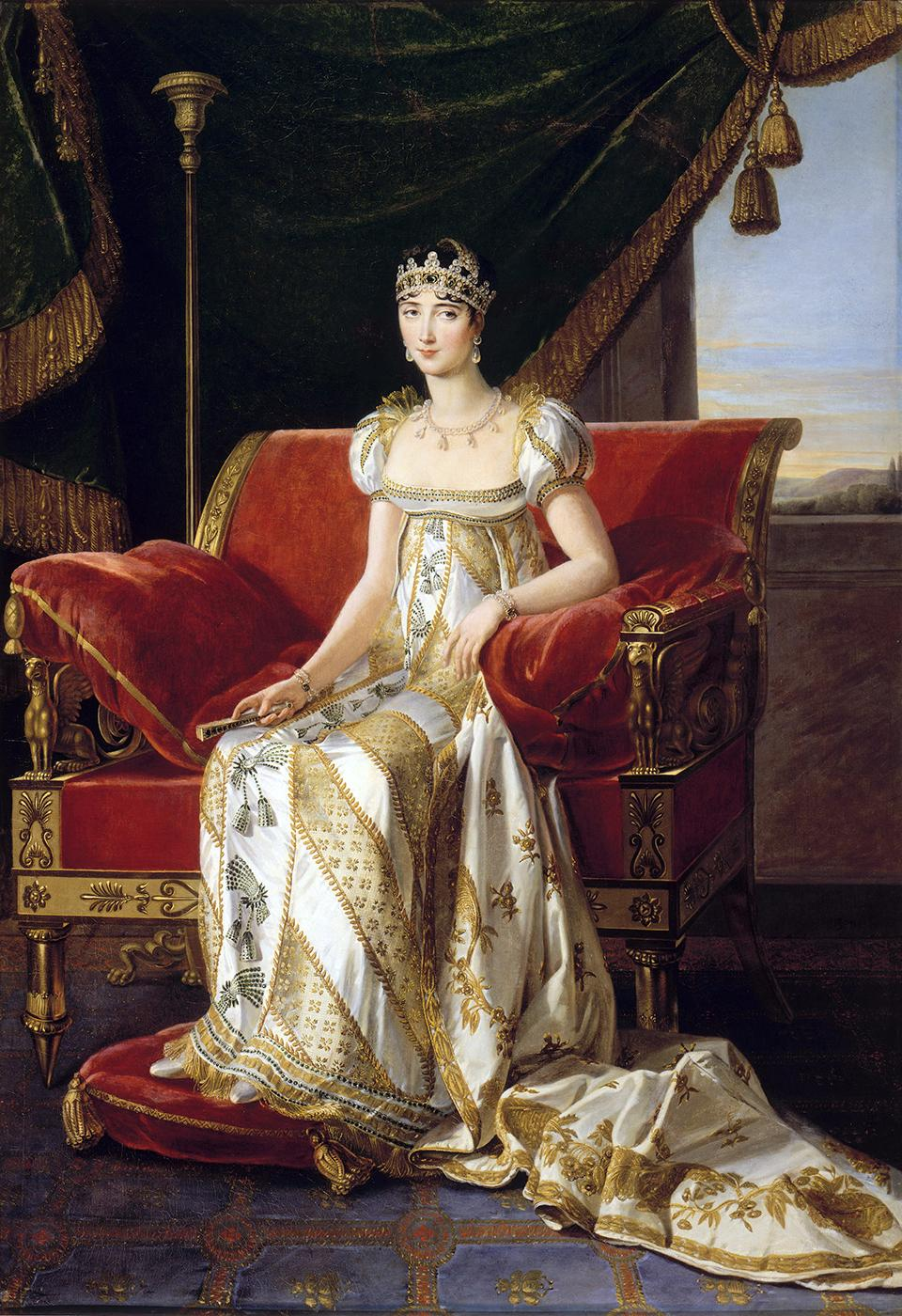 Pauline Bonaparte suo jure Duchess of Guastalla and Princess Borghese as the wife of Camillo Borghese, 6th Prince of Sulmona, and Napoleon's younger sister